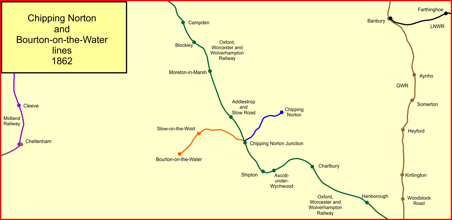 The Chipping Norton and Bourton-on-the-Water railway branch lines in England in 1862